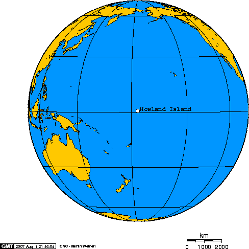 Location of Howland Island in the central Pacific Ocean. The map was created using the online version of the Generic Mapping Tool (GMT) available at online map creation tool.